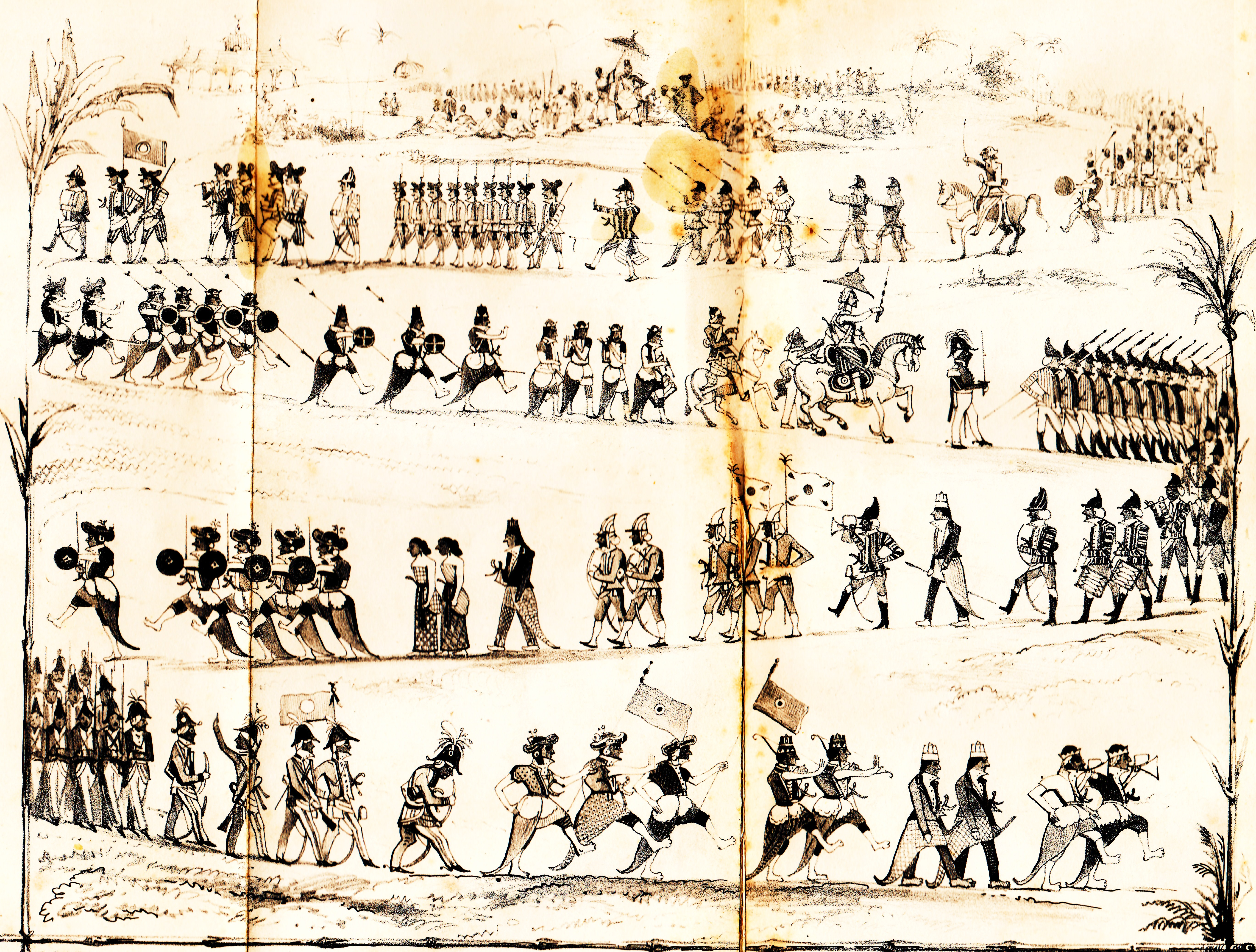 Djokjakarta